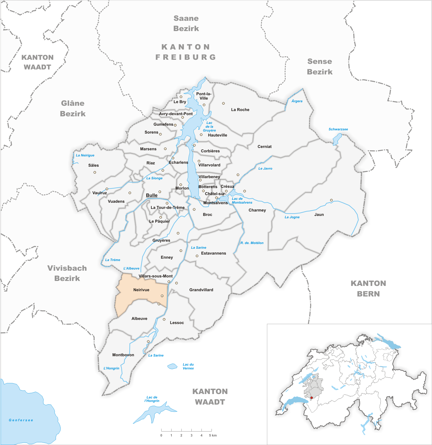 Municipality Neirivue Artist: Tschubby